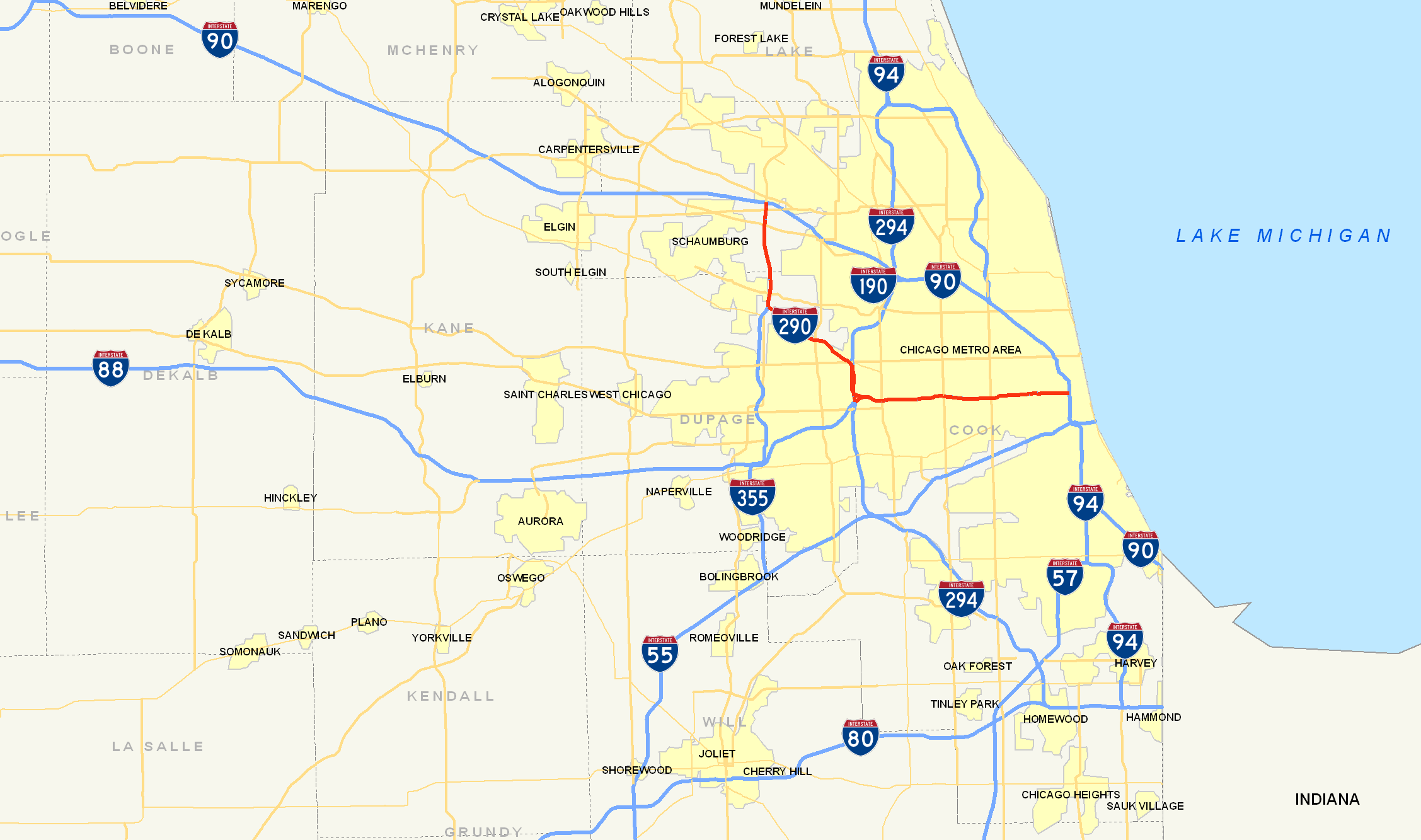 Map of I-290 in Illinois